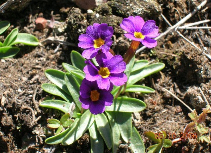 Primula cusickiana var. cusickiana by Sheri Hagwood. Bureau of Land Management. United States, ID, Bureau of Land Management Jarbidge Resource Area. May 10, 2006.